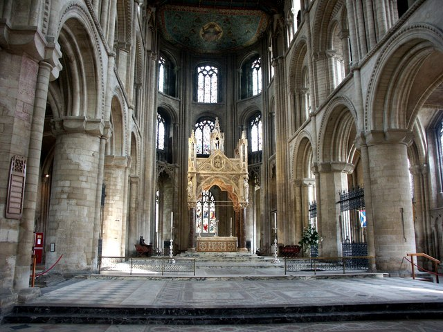 Interior of The Cathedral Church of St Peter, St Paul and St Andrew, Peterborough The high altar.